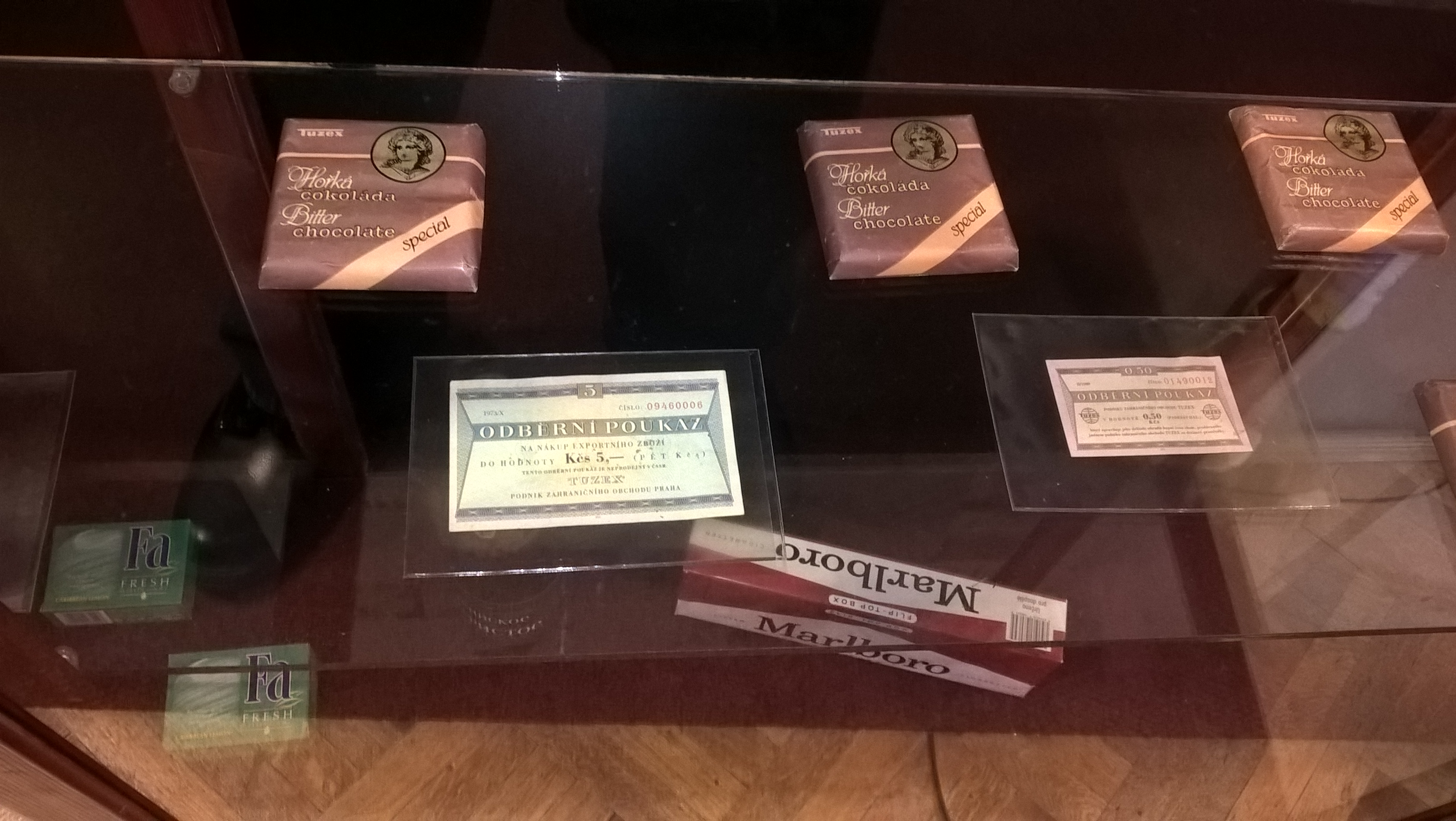 In the Museum of Communism, Prague. A display of Tuzex vouchers and the goods which could be bought with them, but not with Czechoslovak currency. In this section, good chocolate and Western cigarettes.